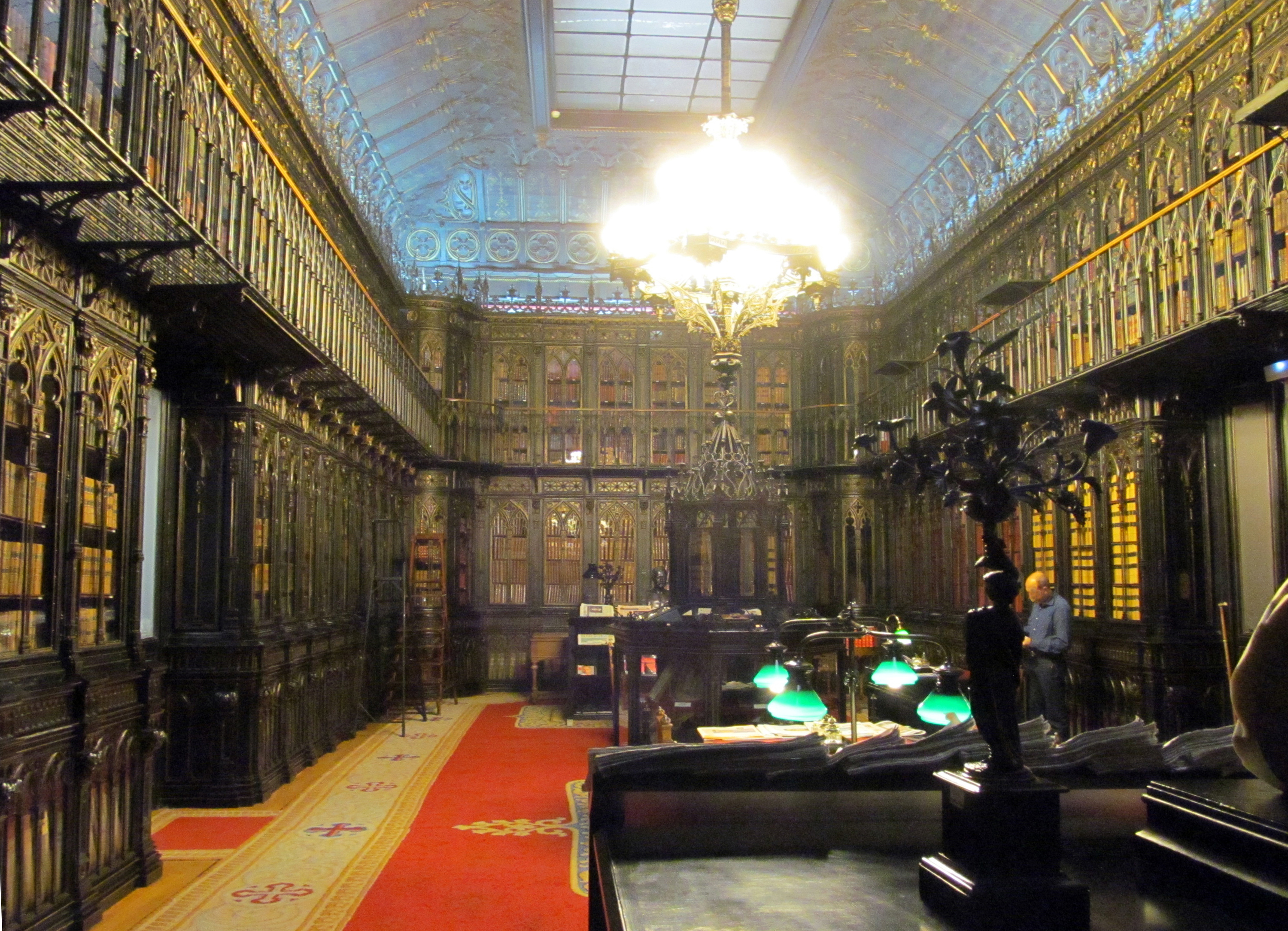 The Senate Library is English neo-Gothic style, and its libraries are iron, to avoid fire. It keeps and displays editions facsimile of historical documents such as the first edition of the La Constitución de Cádiz